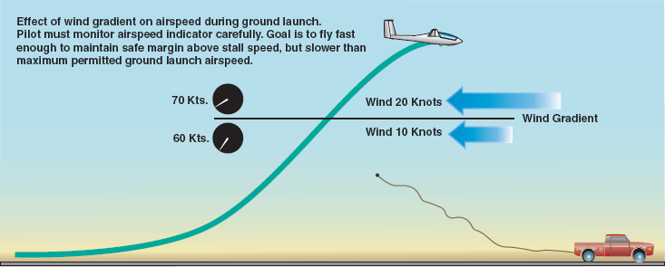 Figure 7-20. Ground launch wind gradient. Effect of wind gradient on airspeed during ground launch. Pilot must monitor airspeed indicator carefully. Goal is to fly fast enough to maintain safe margin above stall speed, but slower than maximum permitted ground launch airspeed.